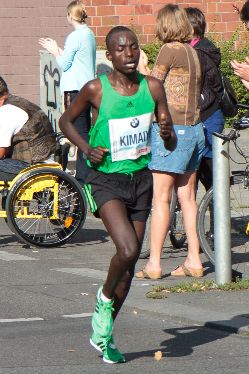 Edwin Kimaiyo at the Berlin Marathon 2011